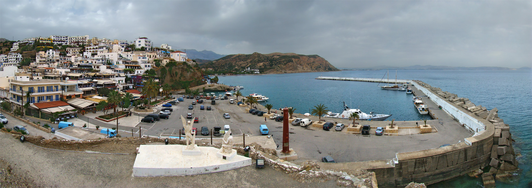 Agia Galini, Crete, Greece.